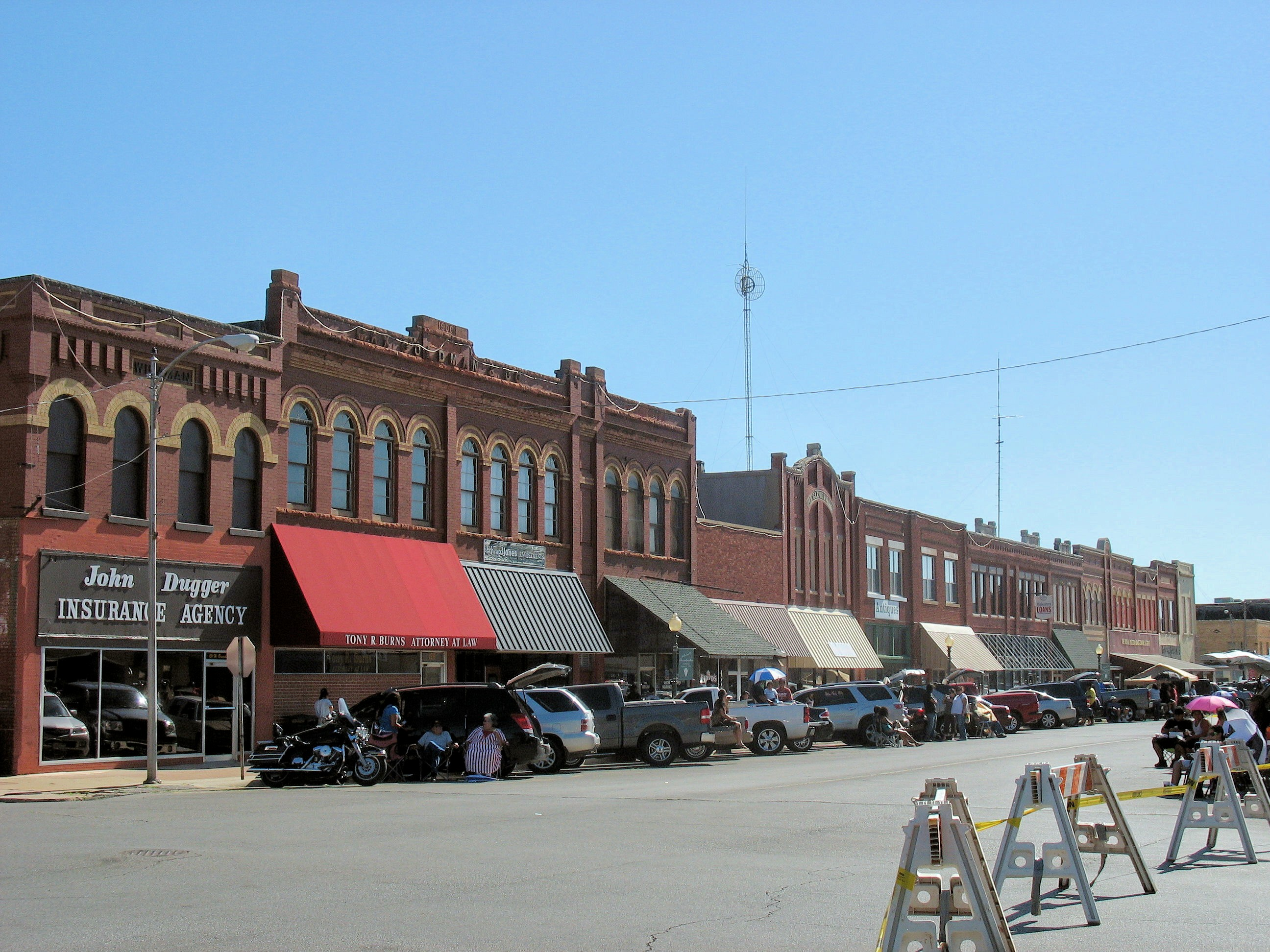 Anadarko Downtown Historic District, Roughly bounded by the Chicago, Rock Island and Pacific railroad line and E. 2nd and W. 3rd Sts. Anadarko